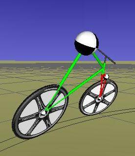 Created by Andrew Dressel with MATLAB and Cosmo Player AndrewDressel 13:06, 23 June 2006 (UTC)